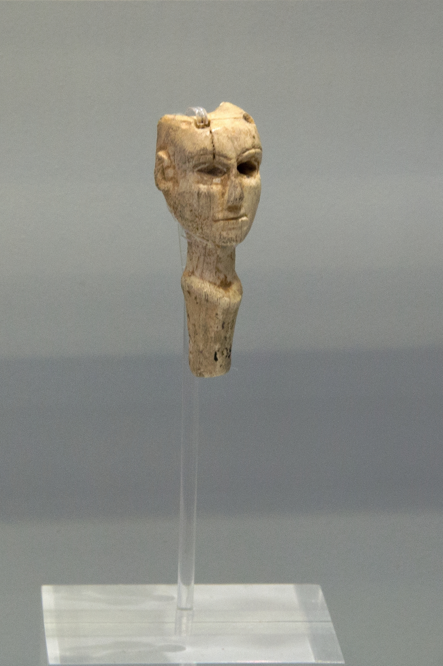 Inlay head of figurines, ivory. Palaikastro, 1600-1450 BC. Archaeological Museum of Heraklion.